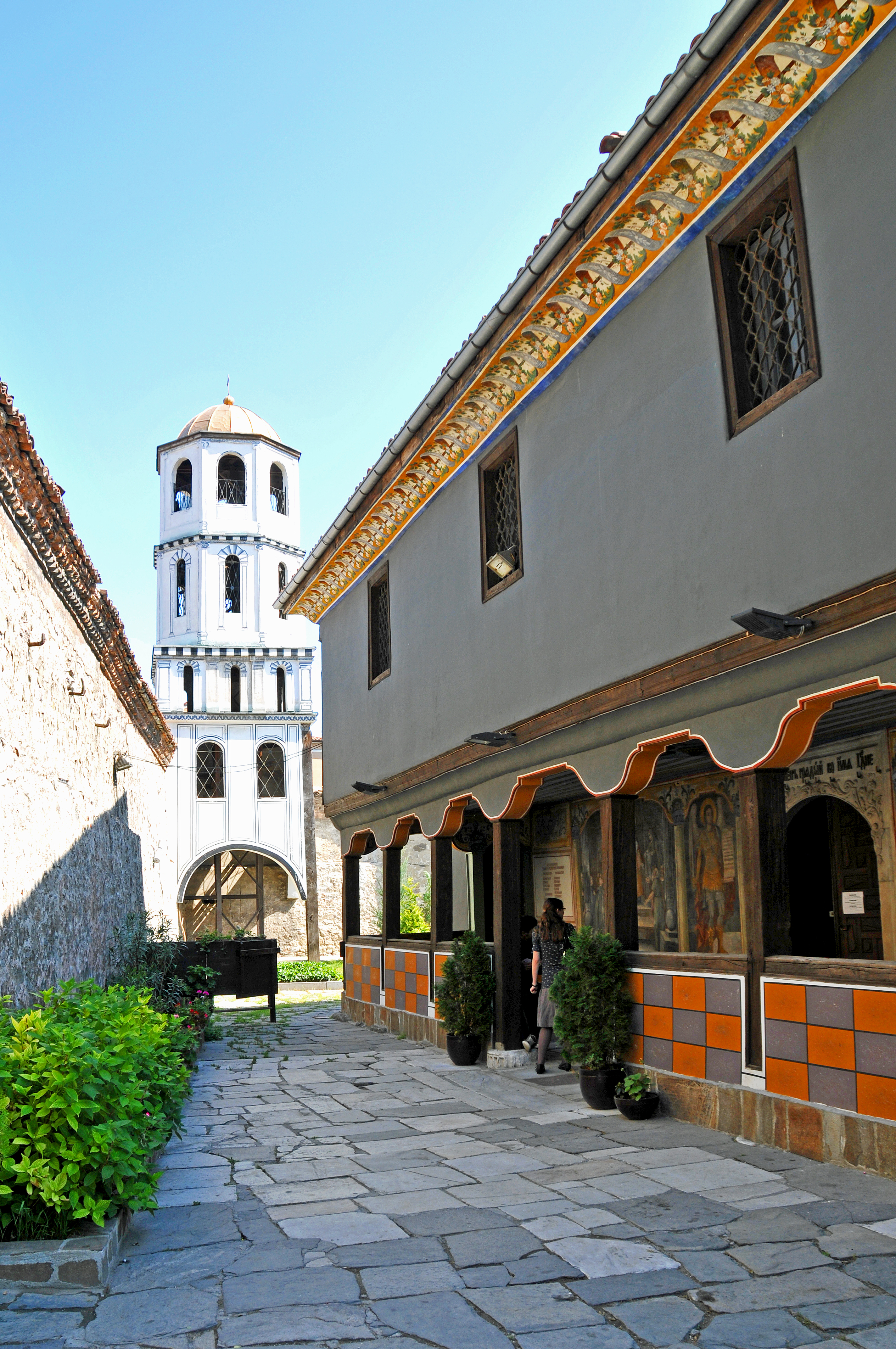 PLEASE, no multi invitations, glitters or self promotion in your comments, THEY WILL BE DELETED. My photos are FREE for anyone to use, just give me credit and it would be nice if you let me know, thanks - NONE OF MY PICTURES ARE HDR. This church is also surrounded by a high wall, the bell tower is in the background. The Church of St Constantine and Helena is considered to be among the oldest churches in the city. It was built in 337 AD at the sight of an ancient pagan temple in the acropolis on one of the fortified hills. The church was named after Emperor Constantine the Great and his mother Elena. During the years, the building was destroyed and rebuilt several times. Its current edifice was constructed in 1832 with the help of local patriots.